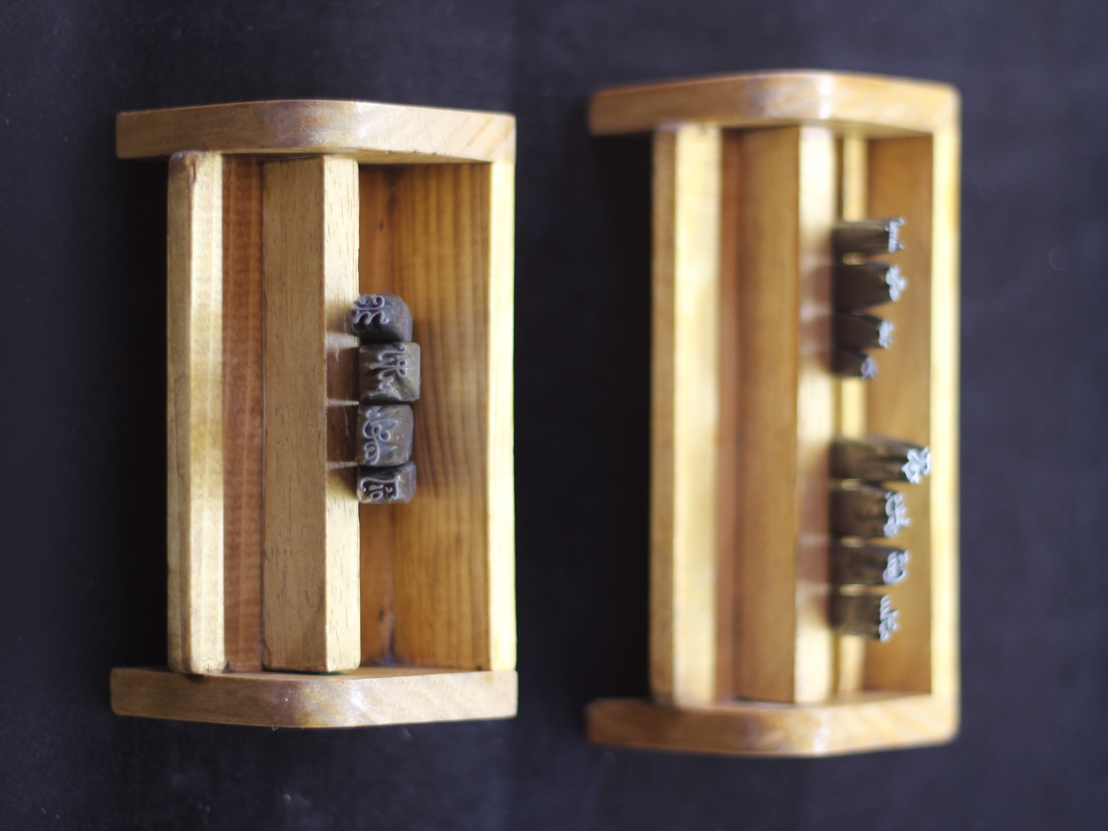 Original punches for the Grecs du Roi metal type by Garamond. Original photographer's description (French): Exposition Le Livre à la Renaissance, exposition des trésors de l'Imprimerie Nationale et de ses savoir-faire, pour Le Livre sur la Place de Nancy 2013